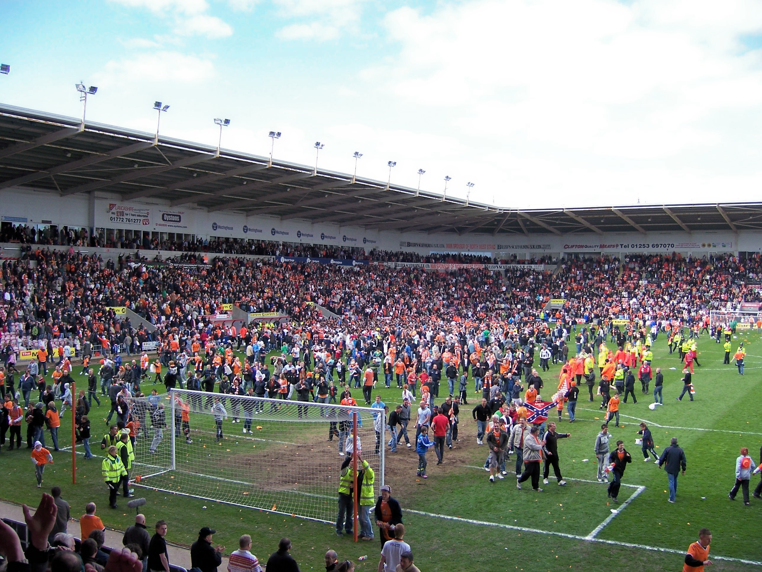 Game Over at Bloomfield Road, Blackpool The Blackpool fans celebrate achieving a 'play-off' place at the last 'proper' game of the 2009/10 season against Bristol City